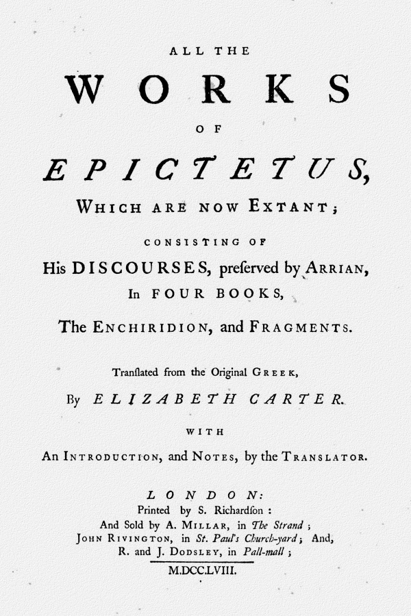 Title Page of All the works of Epictetus : which are now extant; consisting of his Discourses, preserved by Arrian, in four books, the Enchiridion, and fragments; by Elizabeth Carter. First edition.